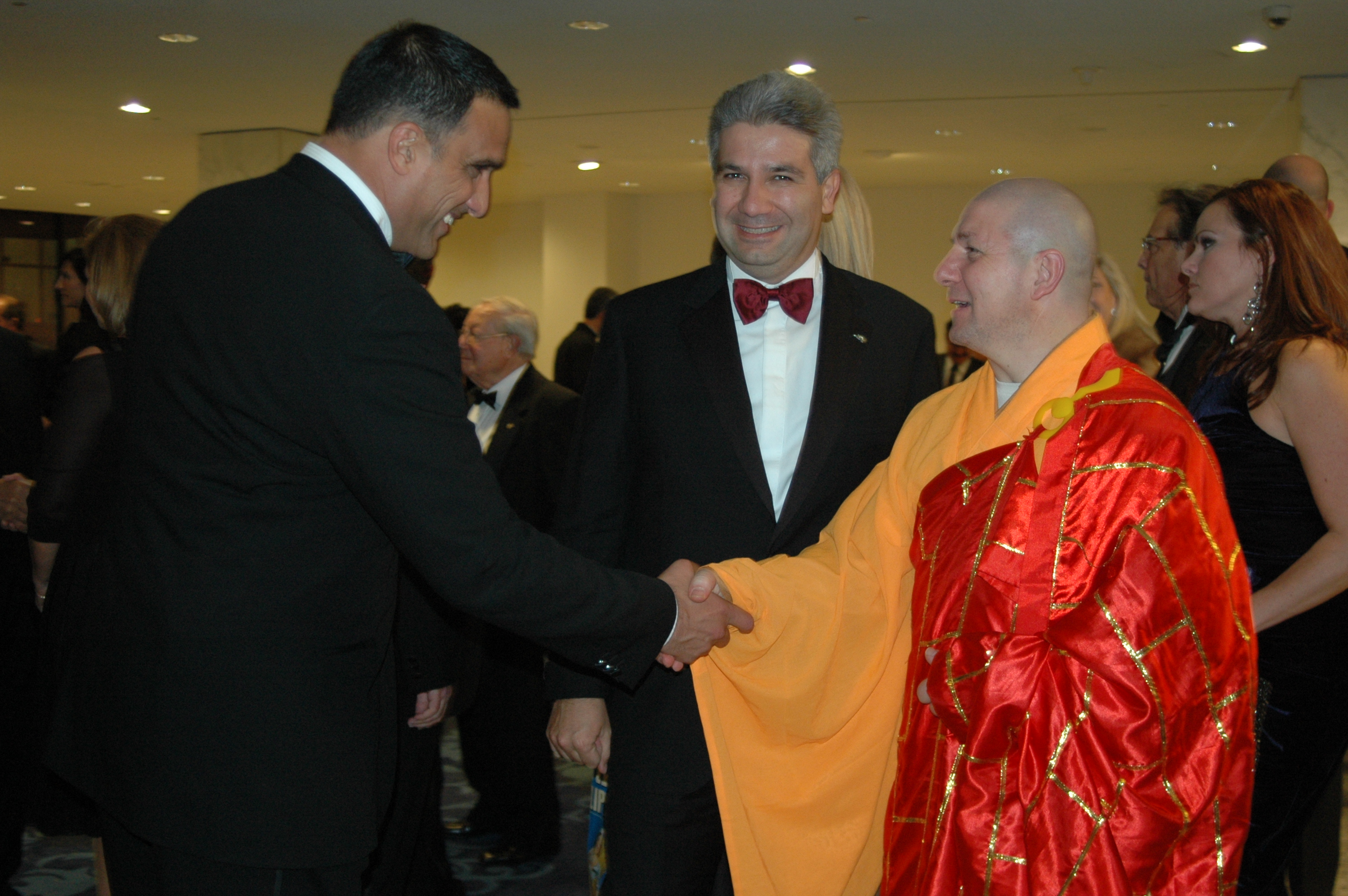 Shi Yan Fan with Italian Consulate General of Los Angeles Nicola Faganello and Producer Douglas DeLuca at the 2010 National Italian American Foundation Annual Gala in Washington DC.